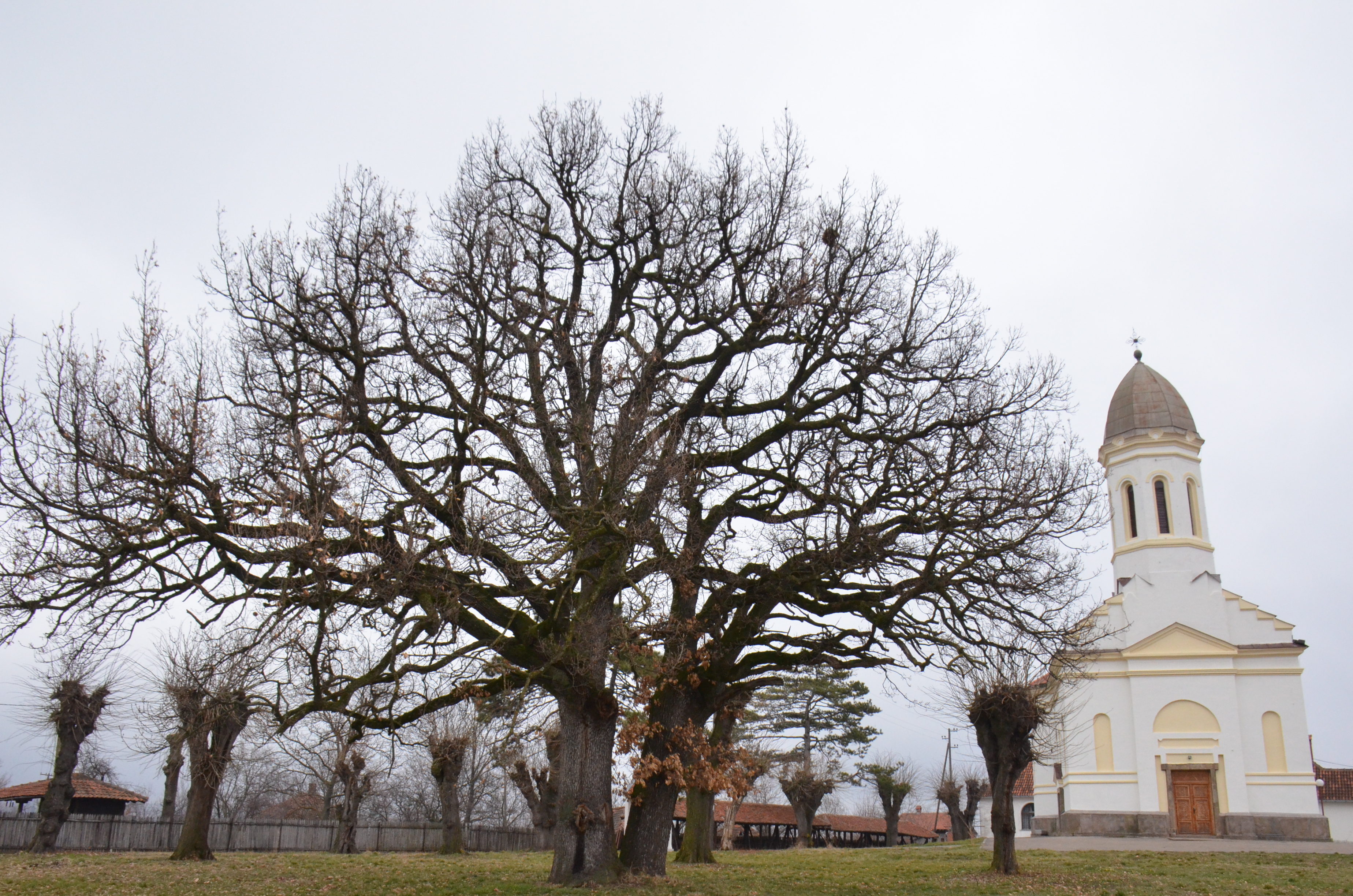 Zapis - Sacred Tree, Оак in village Lužnice, municipality Kragujevac, Serbia